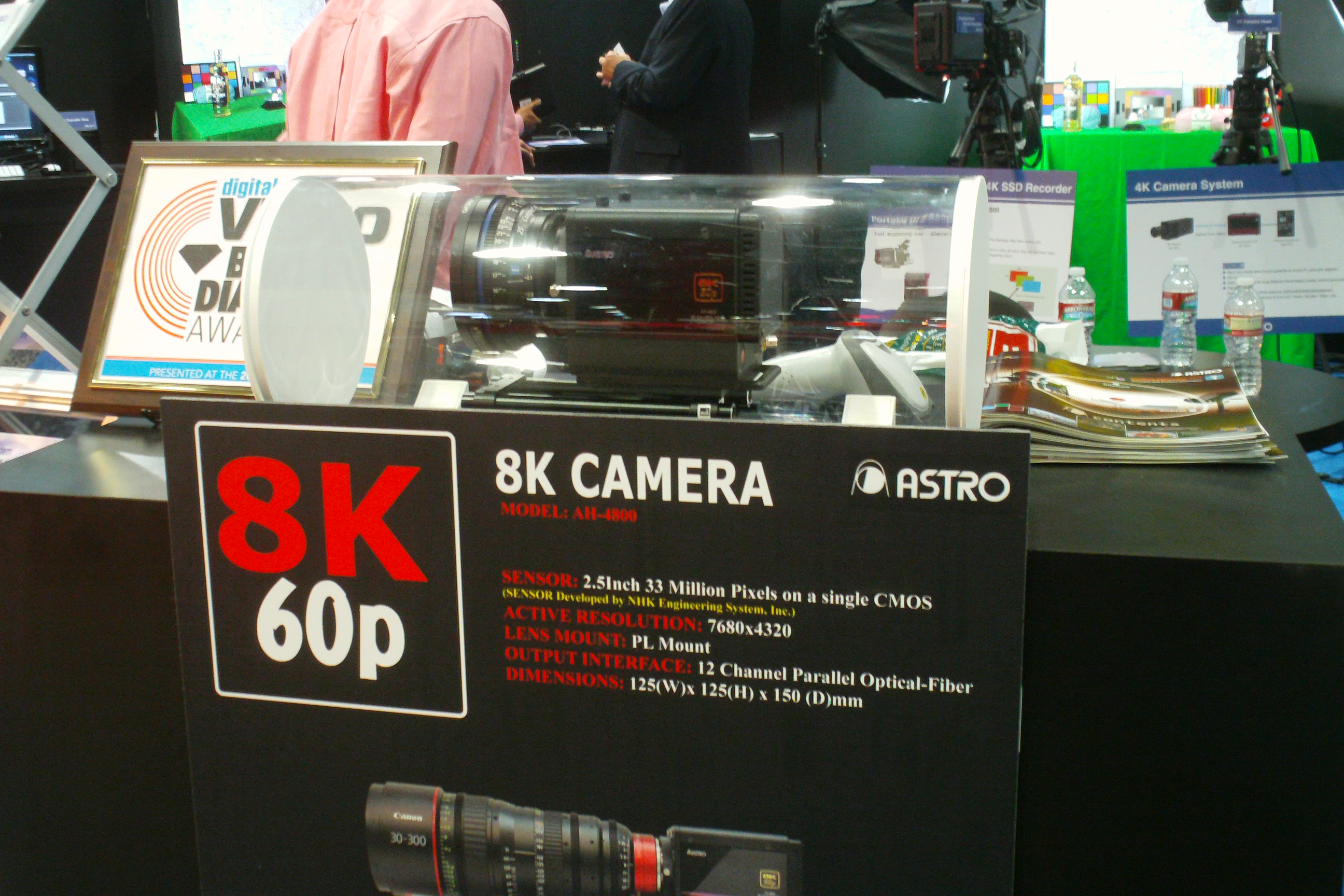 Astro Design 8K camera AH-4800 being shown at the 2013 NAB Show